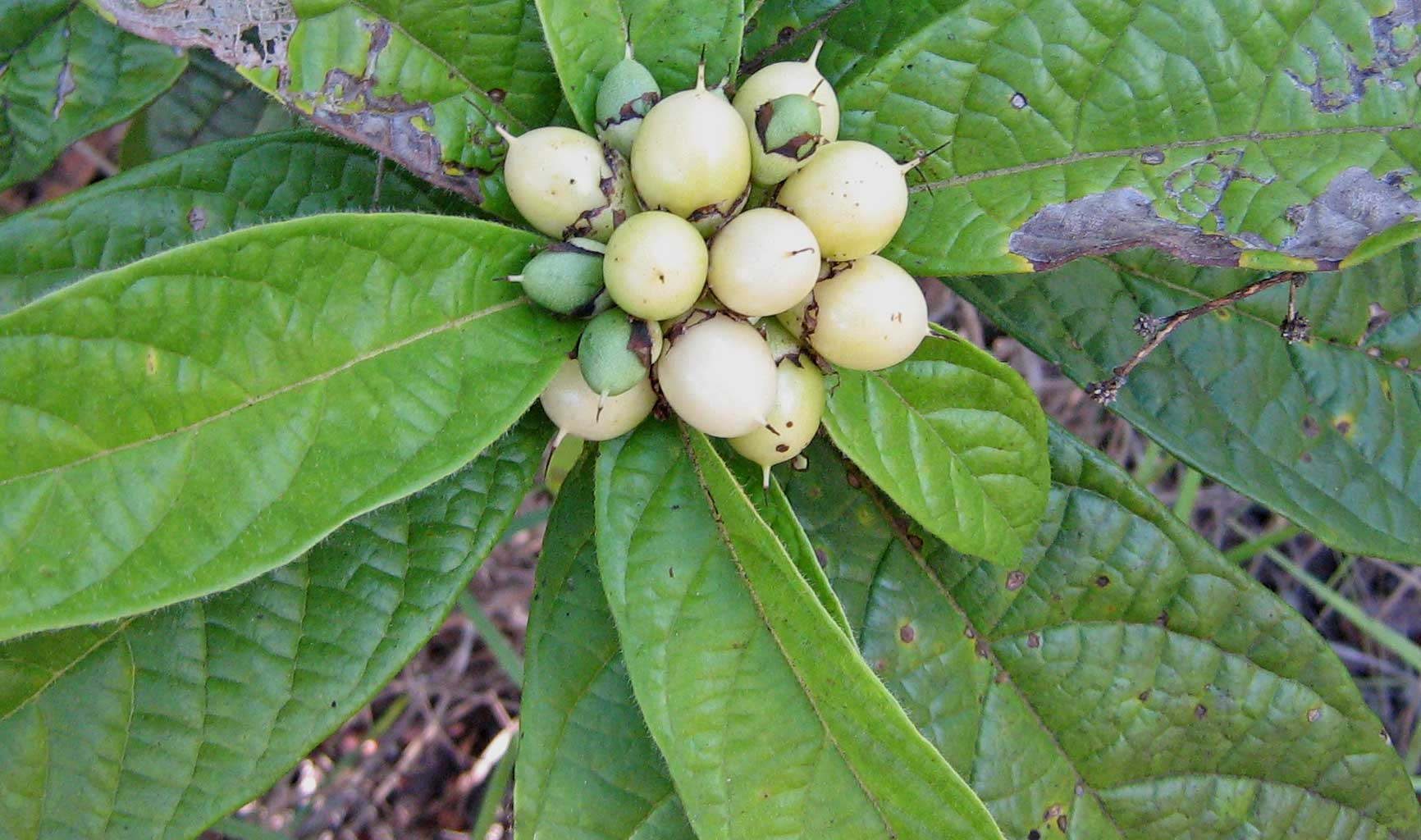 Cordia pilosa M. Stapf & Taroda, Cordiaceae, Atlantic forest, northeastern Bahia, Brazil Tree to 5 m. Popovkin 29 (HUEFS). Local name: mama de porca.